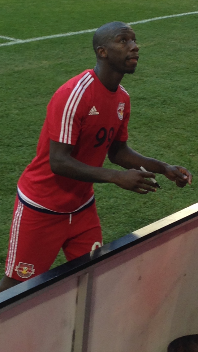 Bradley Wright-Phillips signing autographs after a match in 2016.